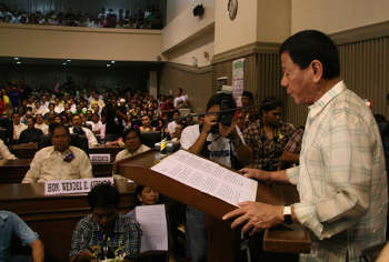 Newly-elected vice-mayor Rodrigo Duterte reads his inaugural speech at the Session Hall of the Sangguniang Panlungsod ng Davao City, 30 June 2010.